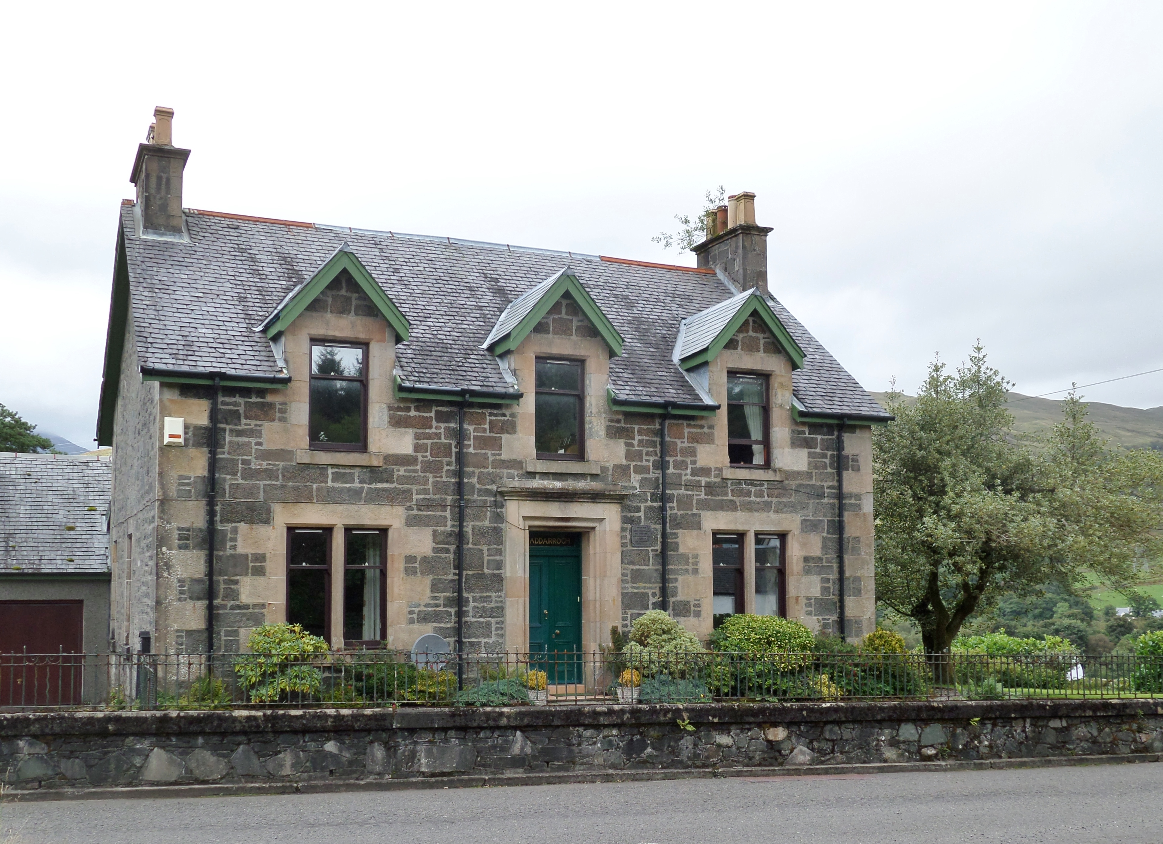 Ex-Labour Party leader John Smith's birthplace in Dalmally, Glenorchy, Scotland.